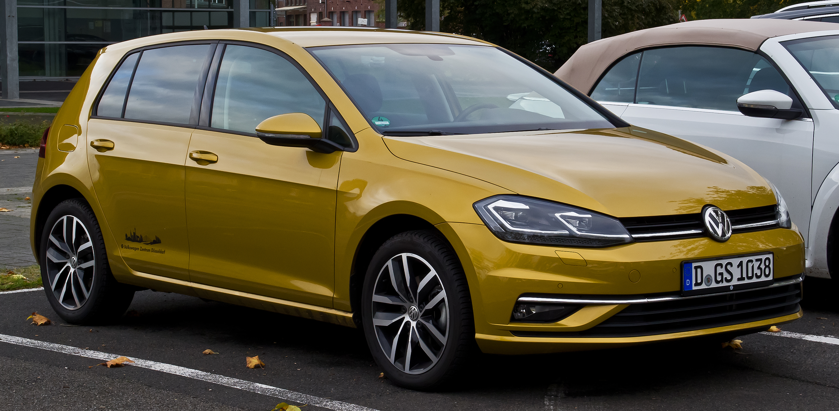 VW Golf 2.0 TDI Highline (VII, Facelift)